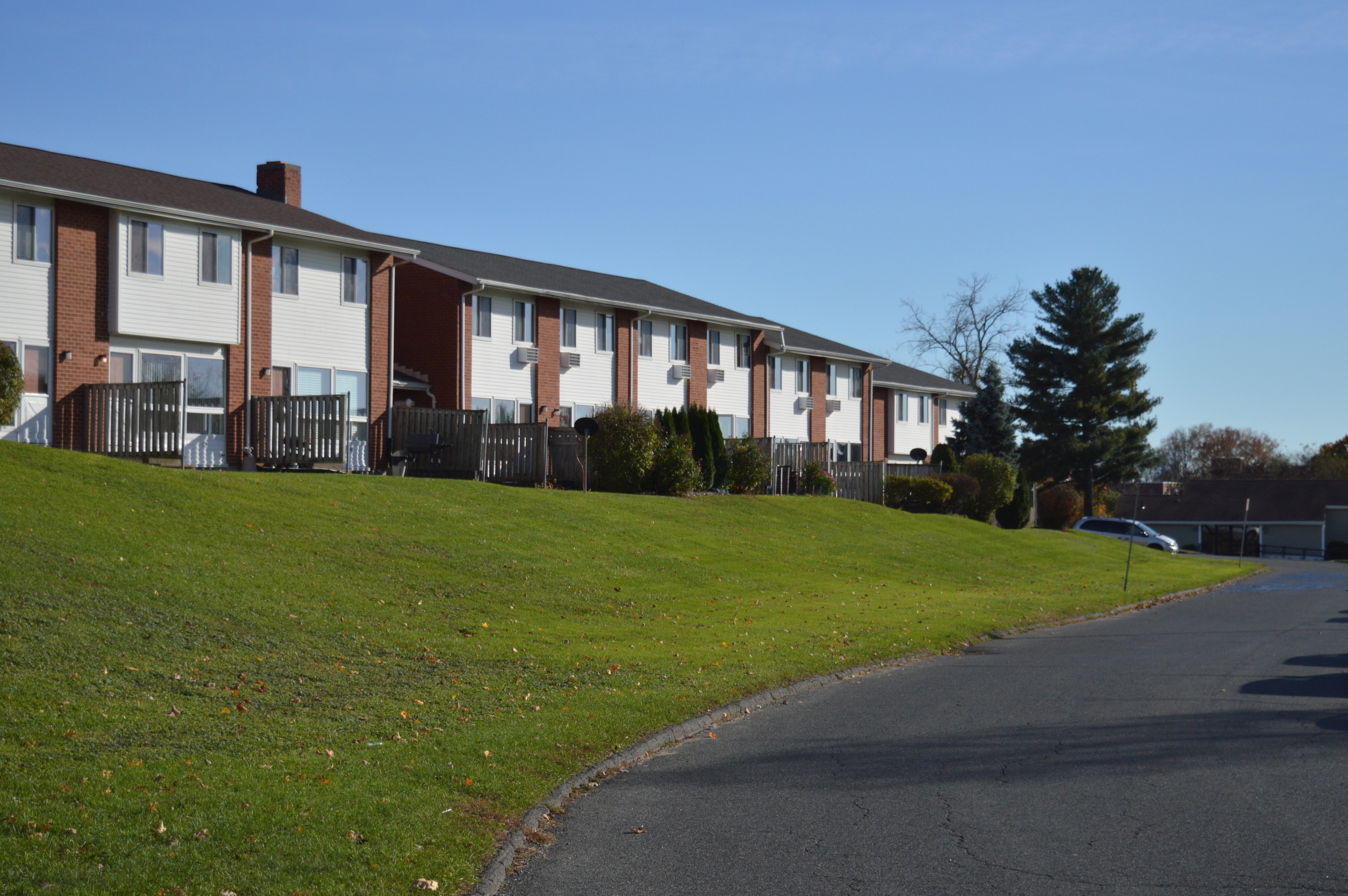 Rowhouses in the Whiting Farms neighborhood of Holyoke, Massachusetts.